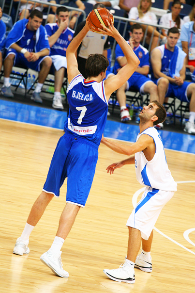 Universiade Belgrade 2009 Basketball : Serbia vs Israël Beogradska Arena, New Belgrade